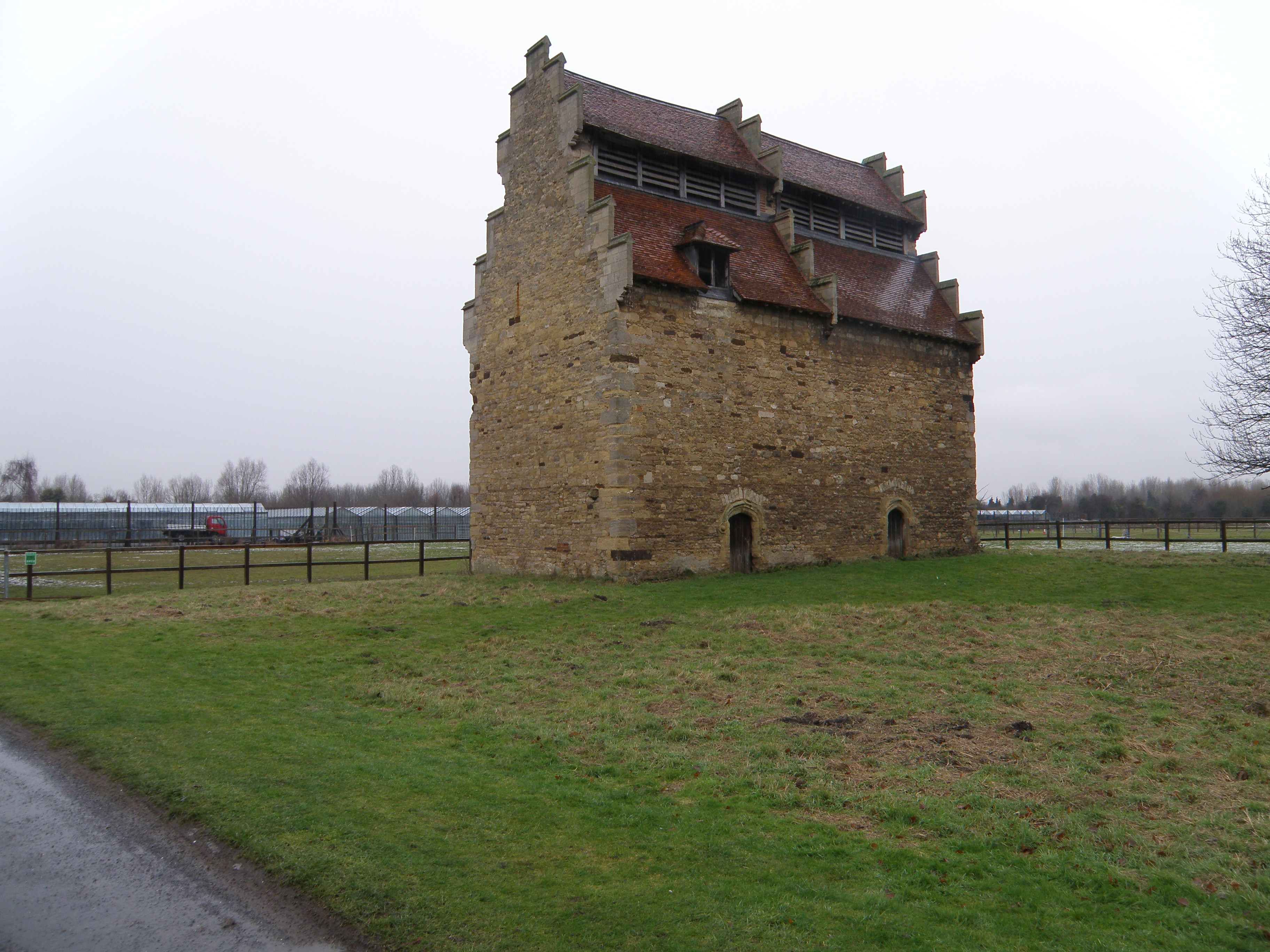 Tudor Dovecote, Willington, near to Willington, Bedfordshire, Great Britain. Built around 1543 as part of a range of buildings for the Manor farm in Willington.It has 1500 nest boxes and is maintained by the National Trust. Viewing is straight forward as it sits in an open site near Willington Church.